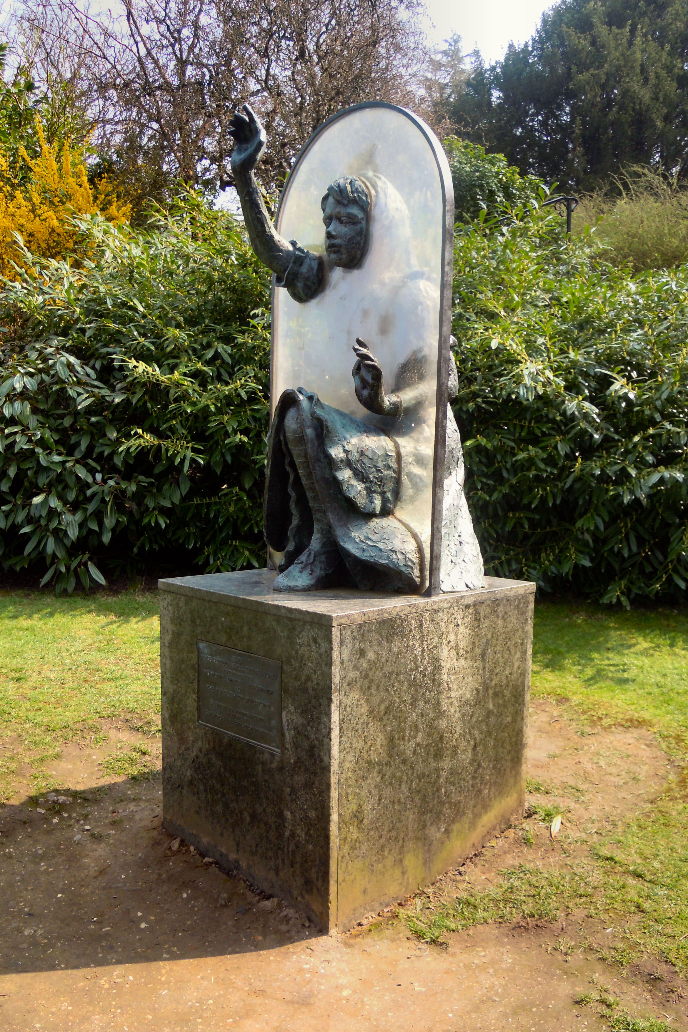 The statue of Alice Through the Looking-Glass in the grounds of Guildford Castle. Created in 1990 by Jeanne Argent.